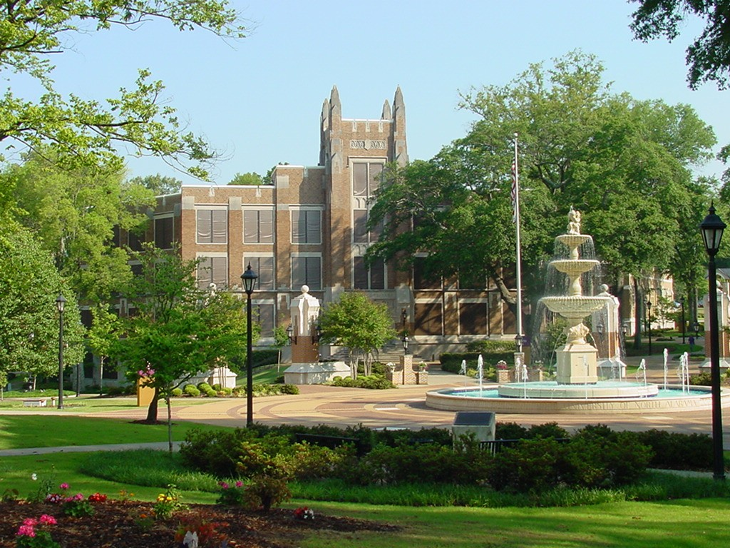 Harrison Plaza, University of North Alabama. Taken by me in May, 2007.